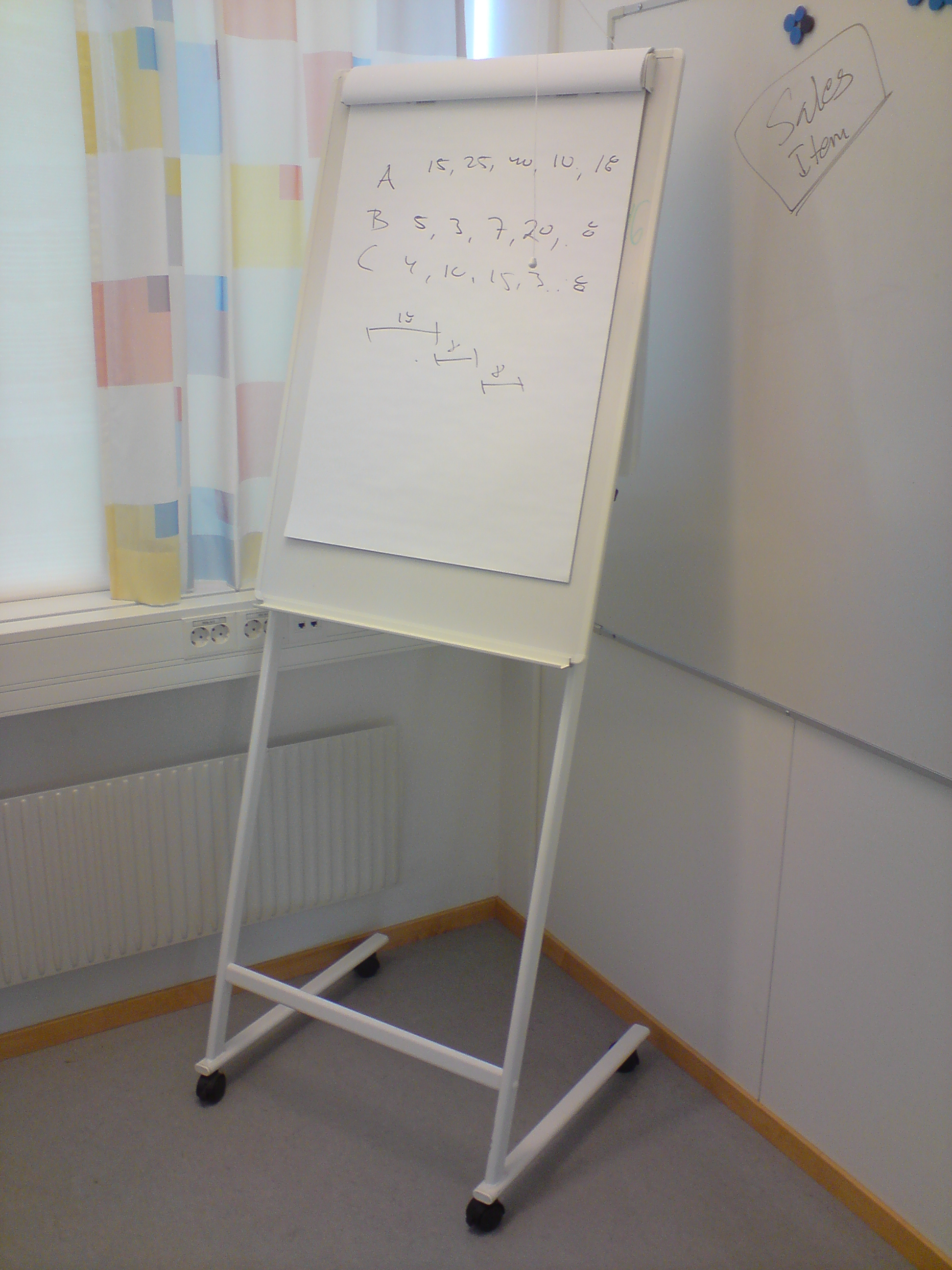 A flip chart in a conference room.